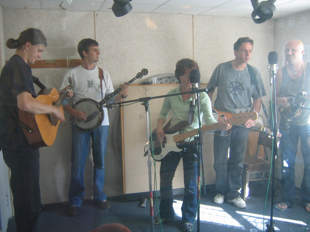 European bluegrass music group Fragment appearing in WMPG radio studio in Portland, Maine. Members come from Slovakia (former Czechoslovakia). The Society for the Preservation of Bluegrass Music awarded the band first place at the 1997 Band Championship in Vienna, Austria. Richard Cifersky on banjo; Jana Mougin on electric guitar (center); Henrich Novak on dobro. [band website